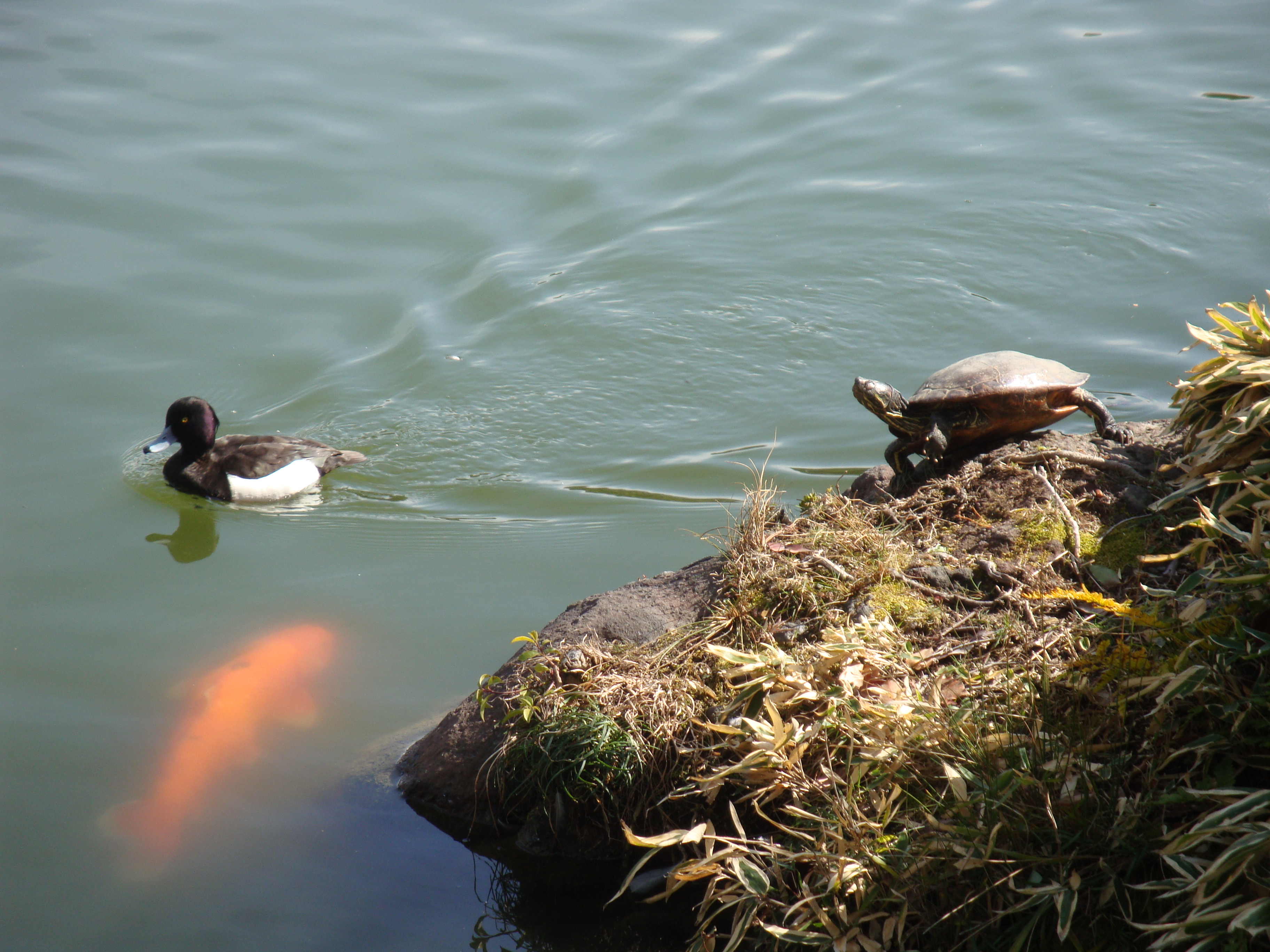 A carp, a duck and a tortoise